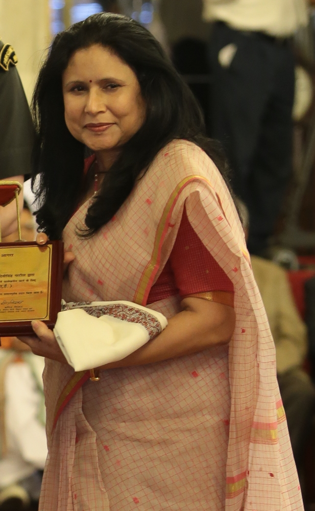 Cropped version for depiction in infobox